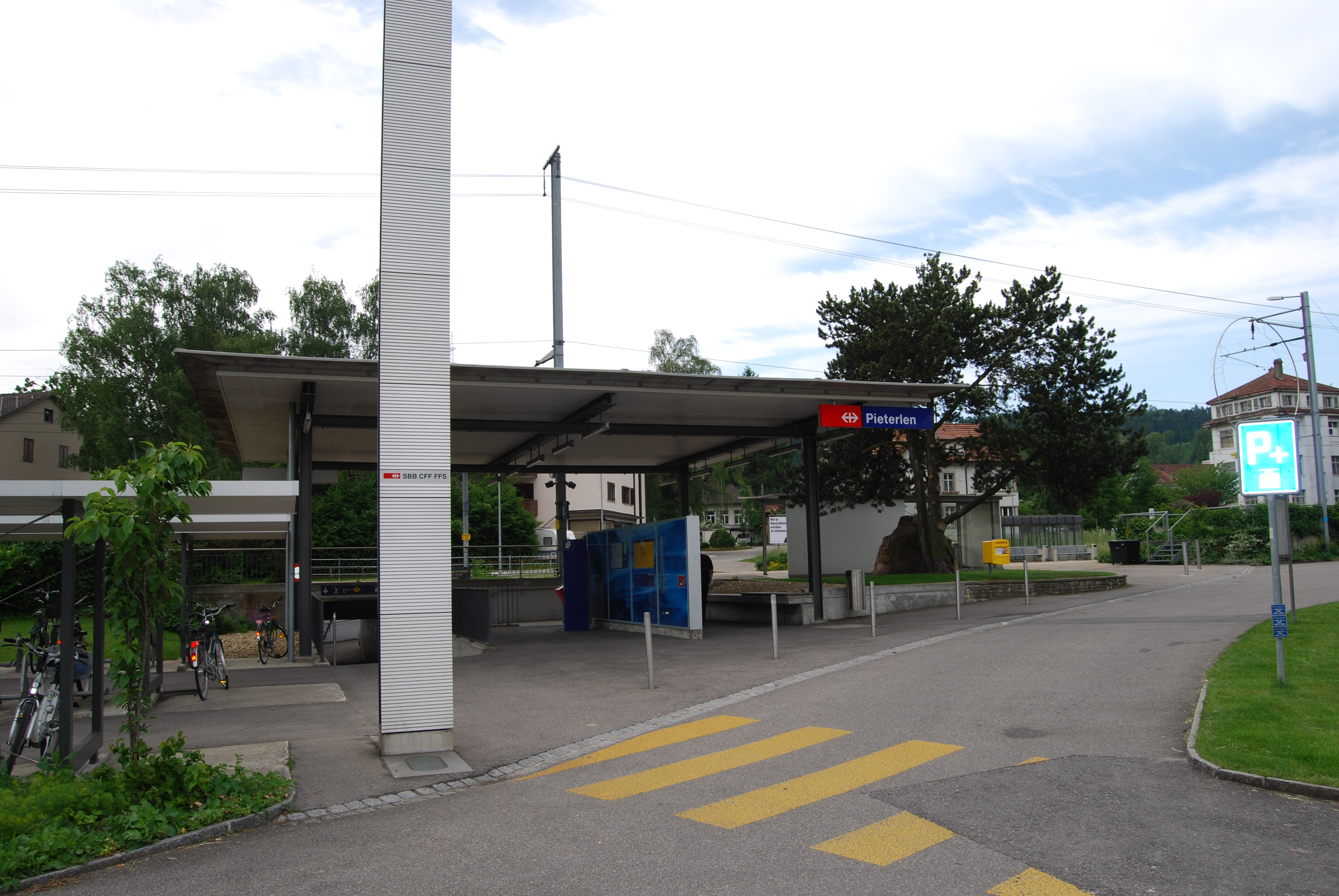 Train station of Pieterlen, canton of Bern, Switzerland